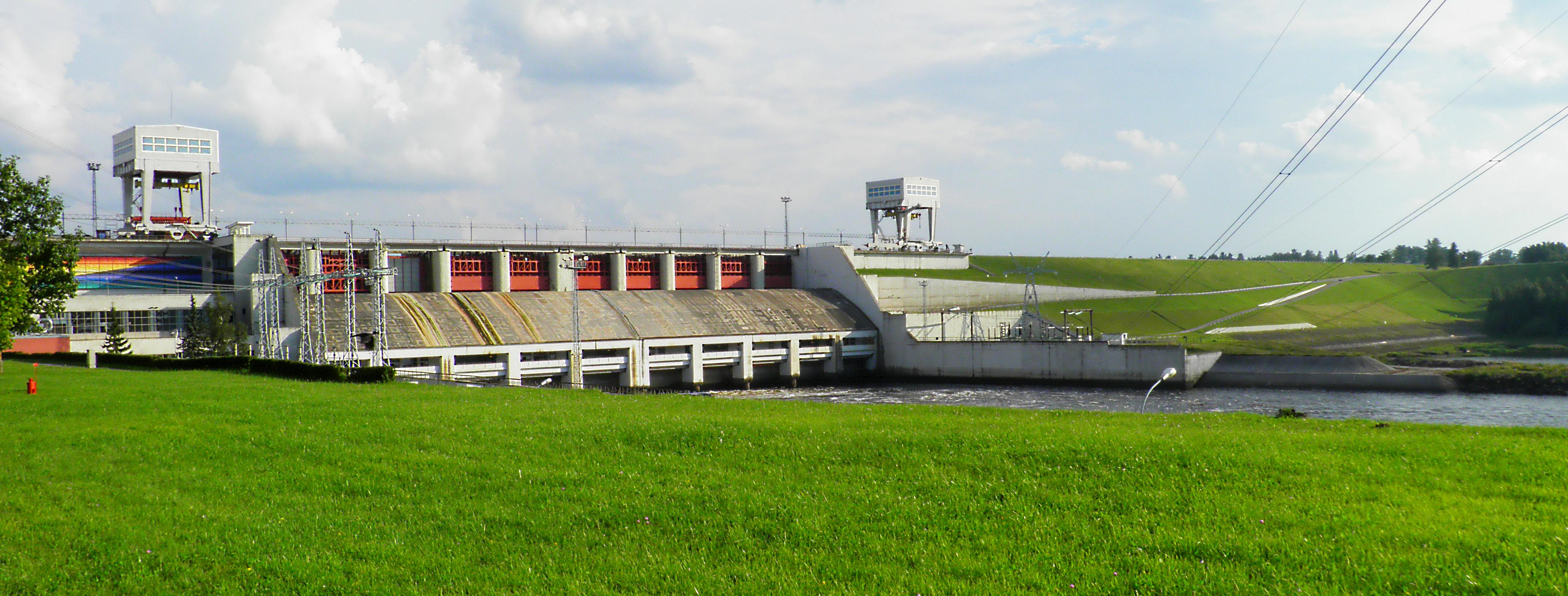 Pļaviņu HES